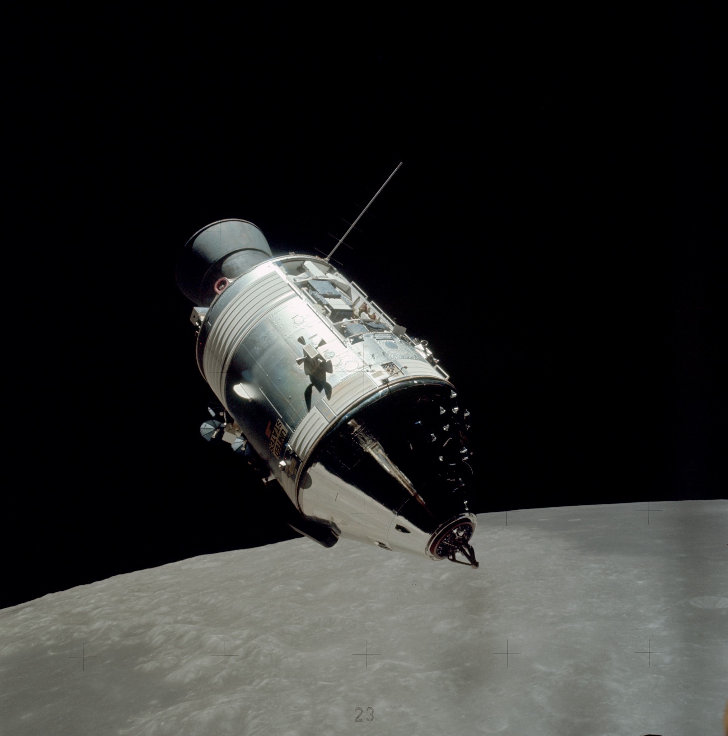 Apollo 17 : the Command Module photographed from the Lunar Module at rendezvous